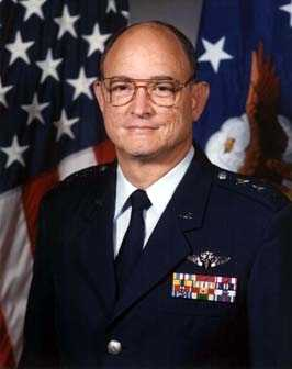 Lieutenant General Charles H. Roadman II from [1]